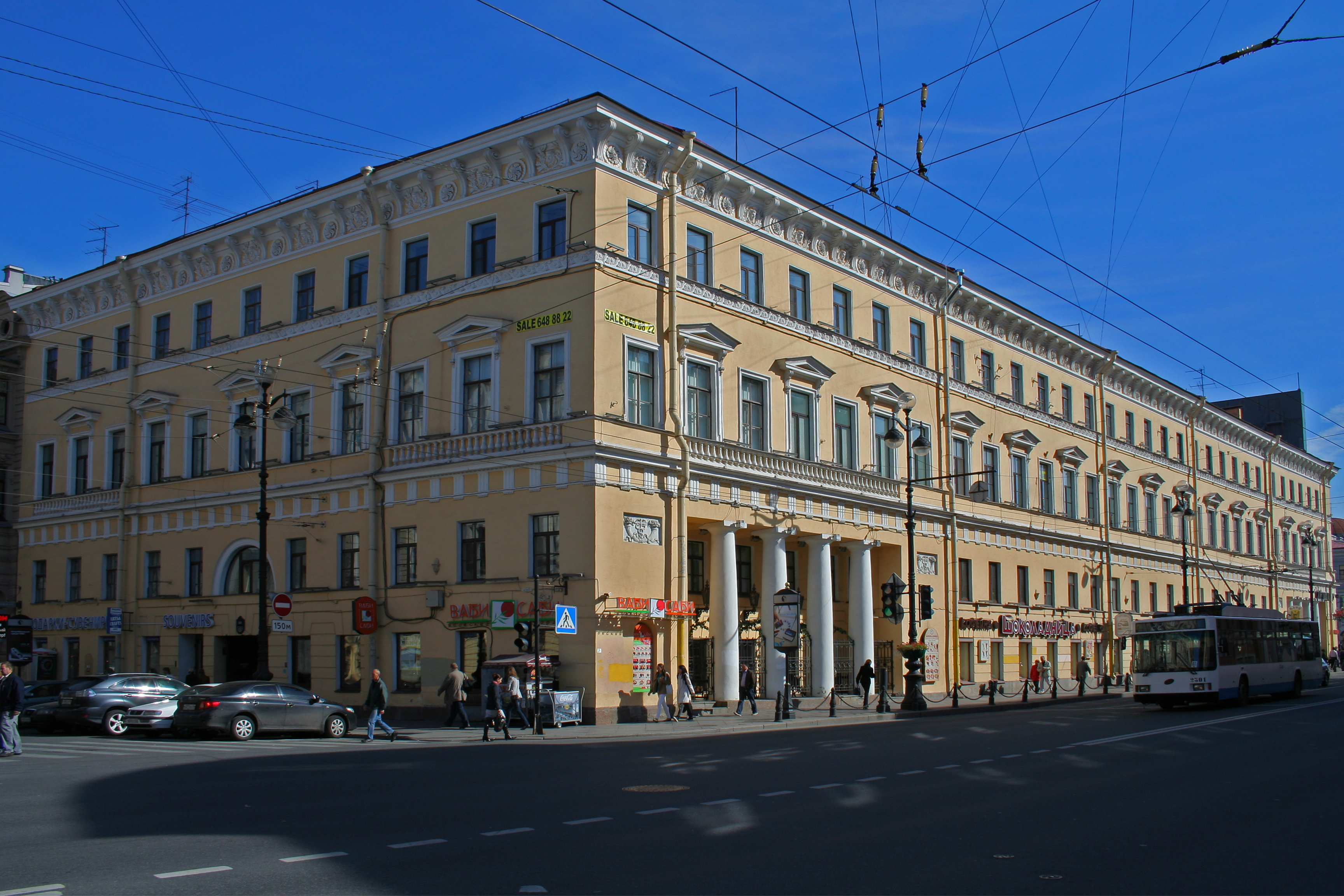 The Nevsky Prospekt in Saint Petersburg. House number 18.